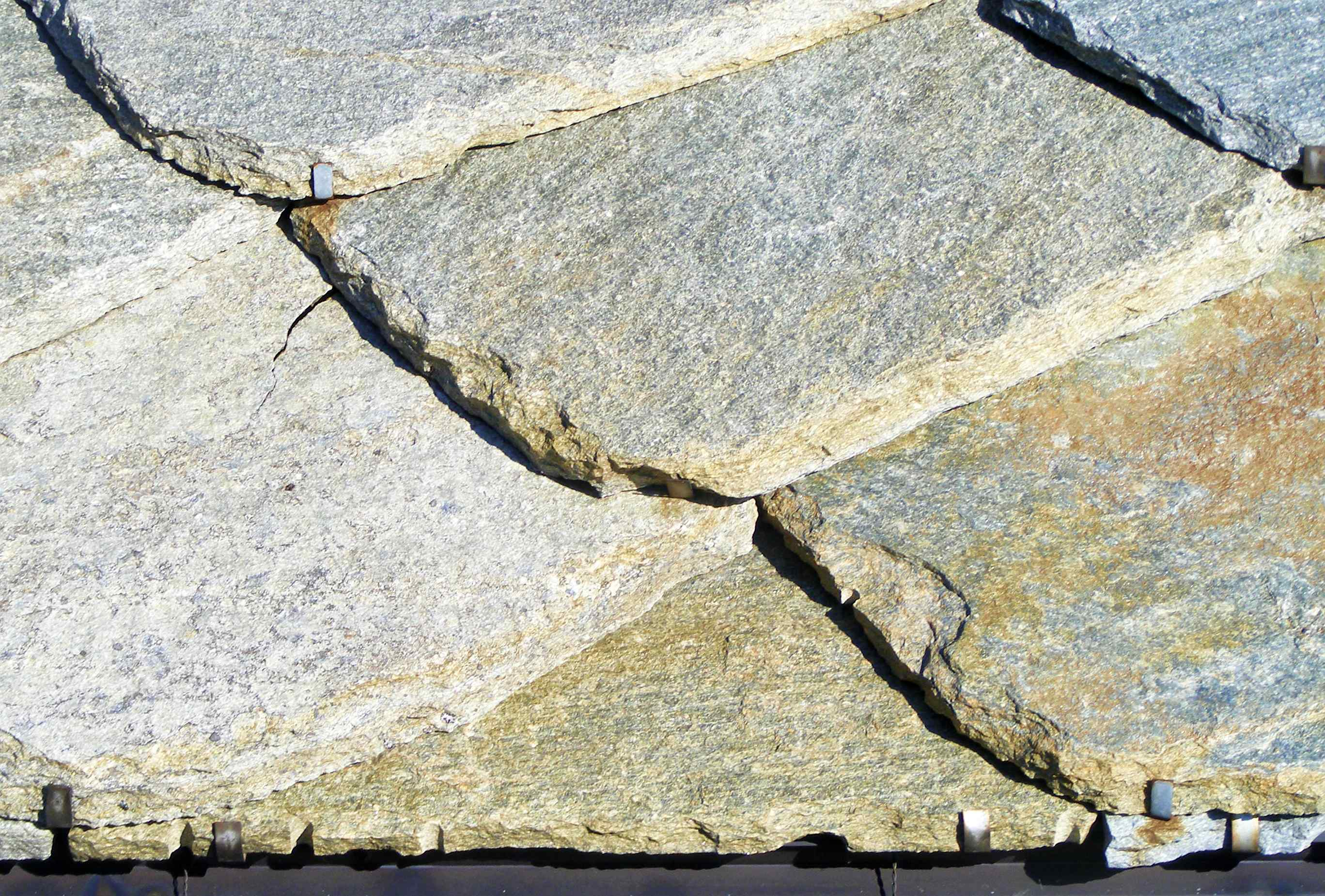 Stone roof at Alpe della Comba (Quincinetto, TO, Italy): detail